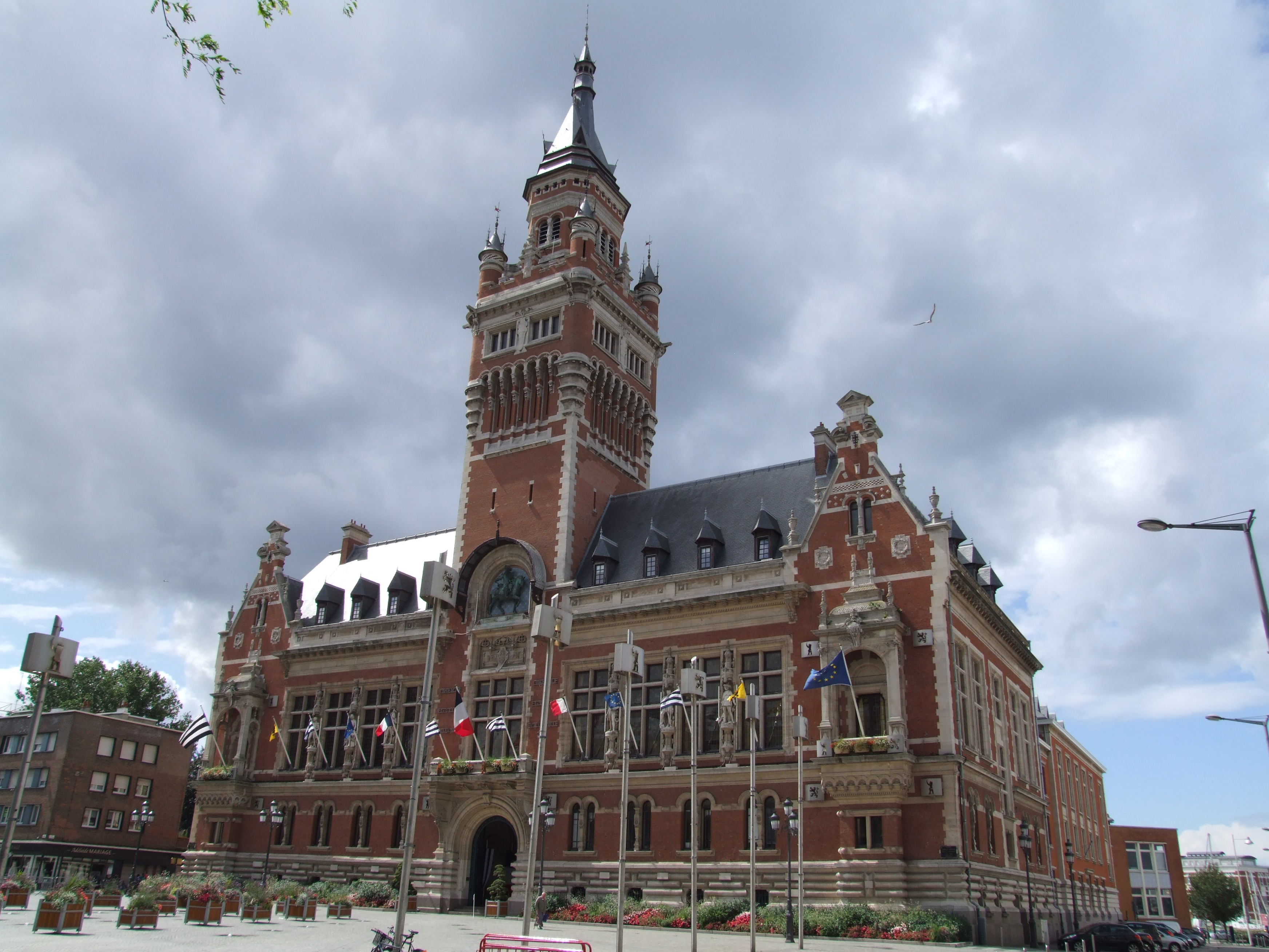 Hôtel de Ville of Dunkerque